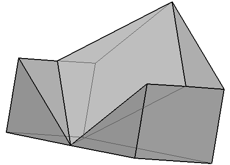 K-dron - patented by Janusz Kapusta